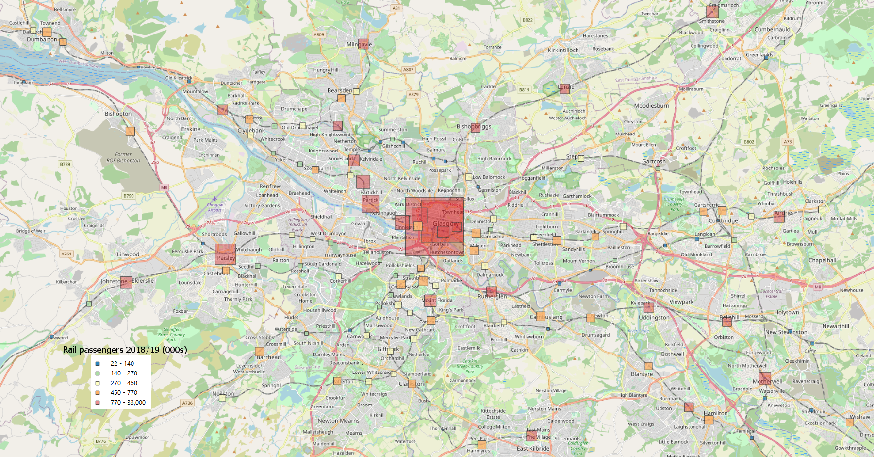 Square areas show passengers number. Every colour is 20 % of stations in Greater Glasgow urban area.